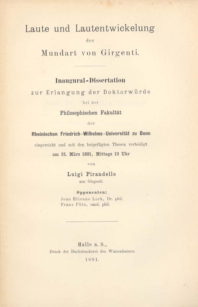 Luigi Pirandello: Laute und Lautentwicklung der Mundart von Girgenti Dissertation Bonn, 1891. Collection Leiden University Library (The Netherlands)